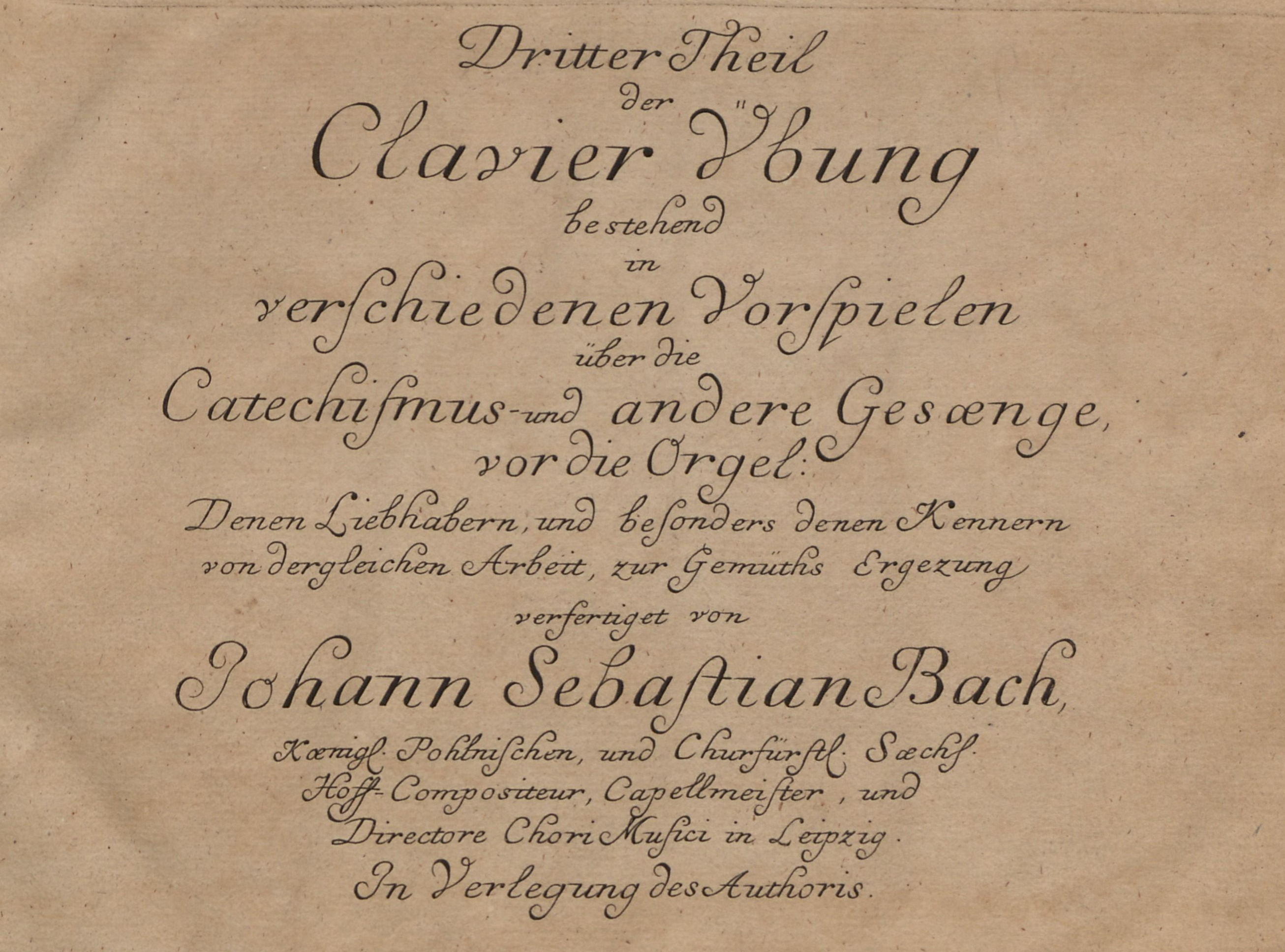 Title page of Johann Sebastian Bach's Clavier-Übung III. Image has been rotated and clipped.